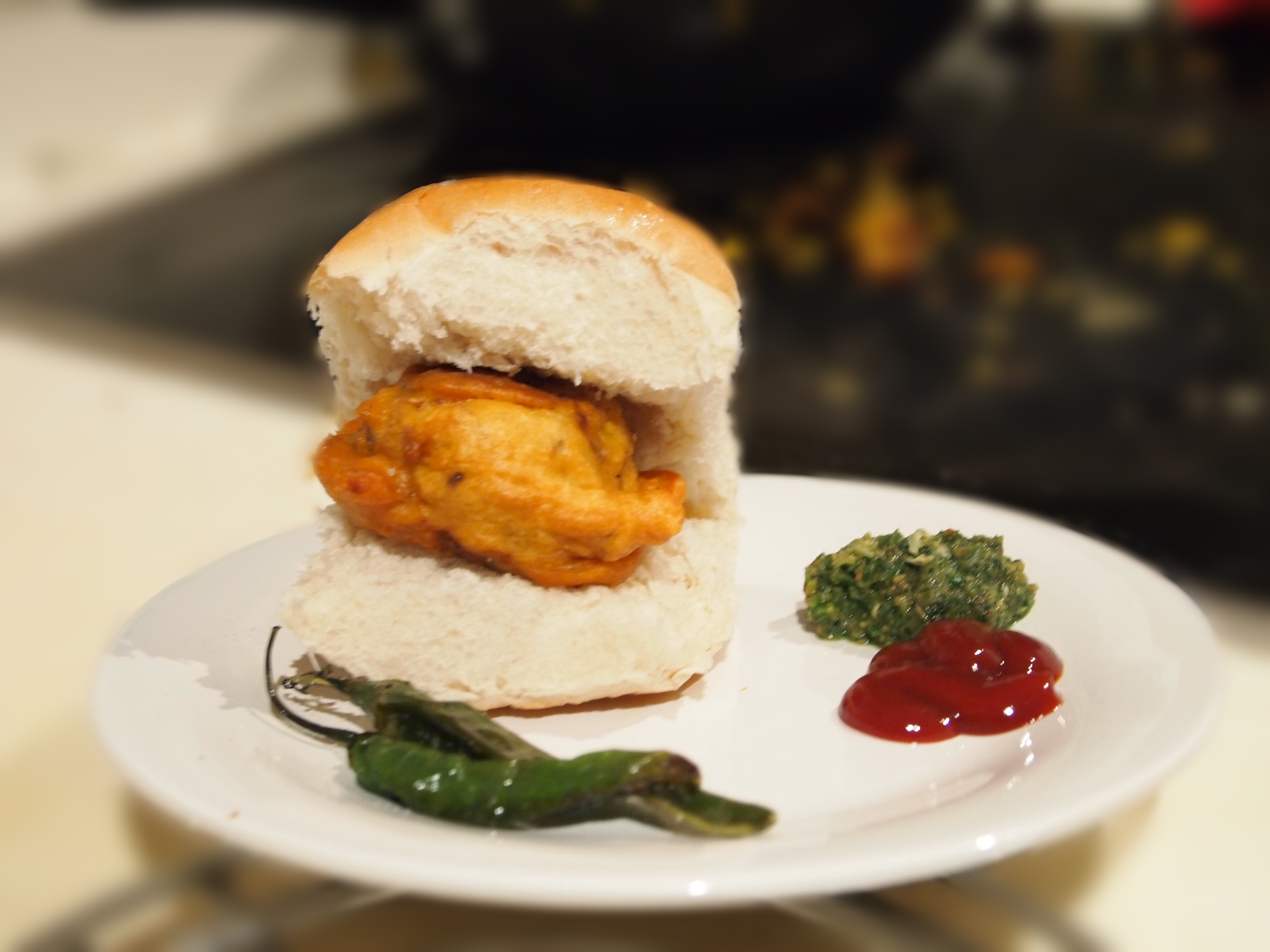 Home cooked vada pav aka burger for common men in mumbai, the cheapest and most popular staple food in Mumbai.